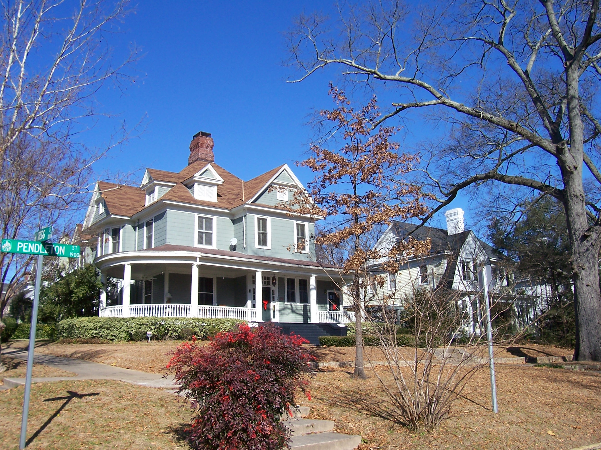 A view of a house in the NRHP's University Neighborhood Historic District in Columbia, South Carolina, on the corner of Pendelton and Gregg Streets. The state's version of the NRHP listing calls this the Otis House, 1901 Pendelton St., and suggests it was constructed in 1906. This neighborhood is better known as University Hill, as the steps in the sidewalks attest. Another house to the right is partially visible, but is not a contributing property of the district.